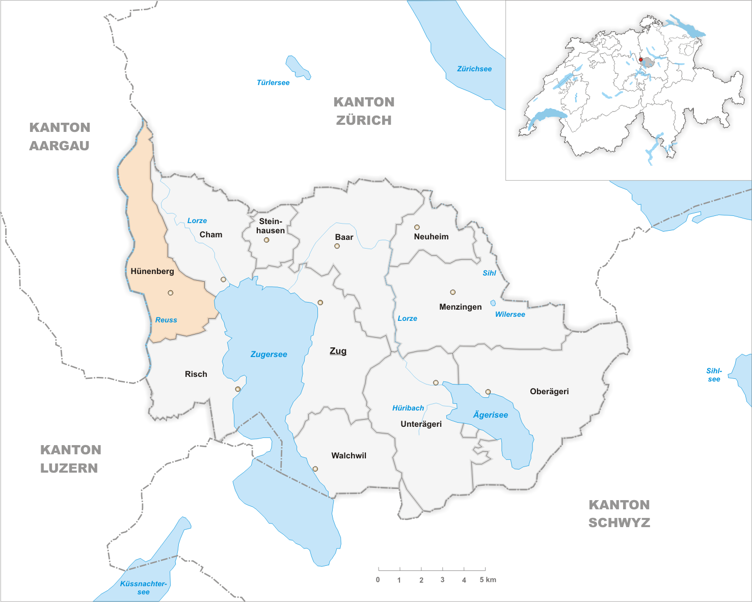 Municipality of Hünenberg